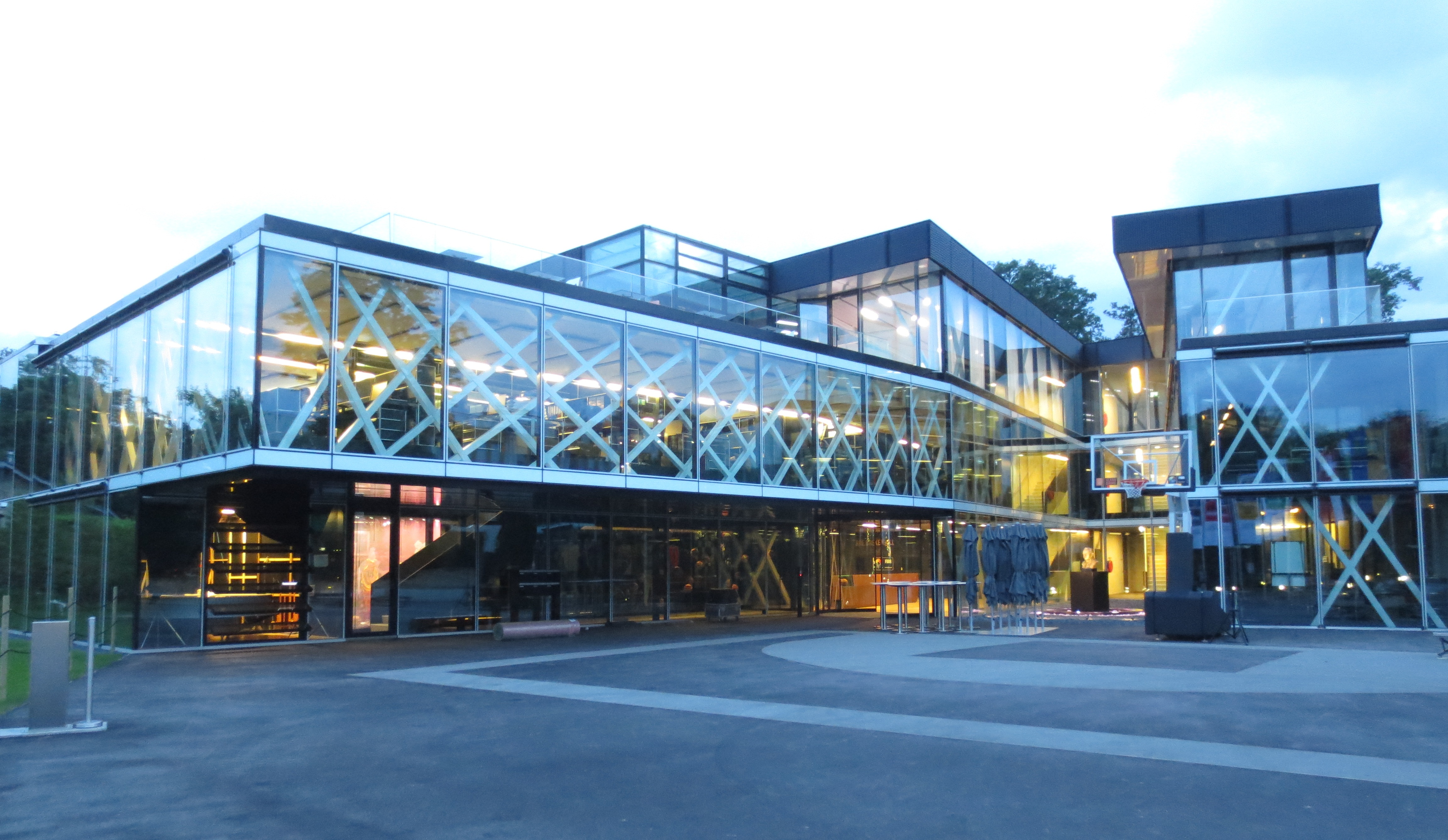 FIBA headquarter, Mies, Switzerland